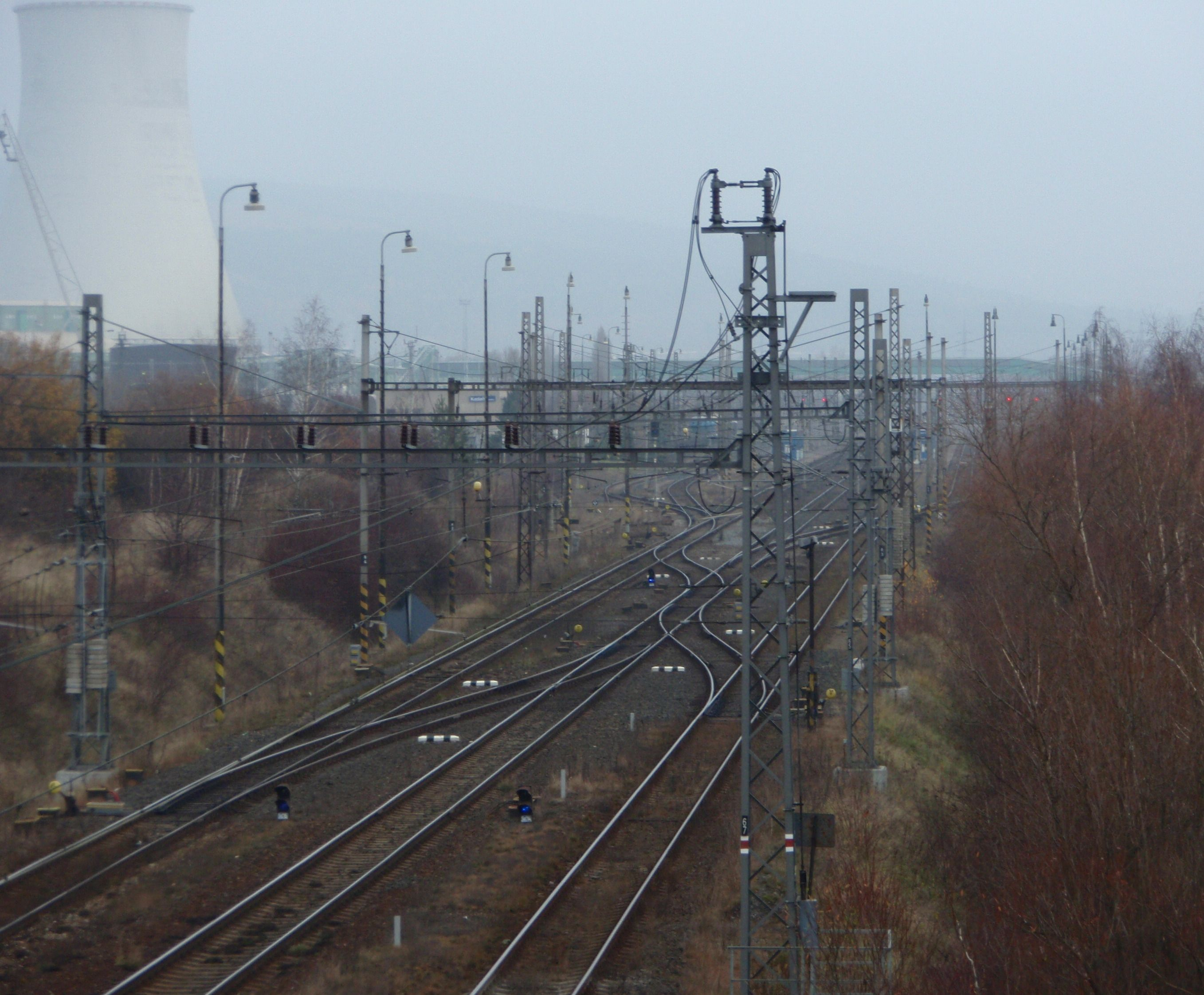 Railway Station Kadaň-Prunéřov